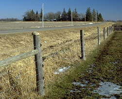 HT electric fence